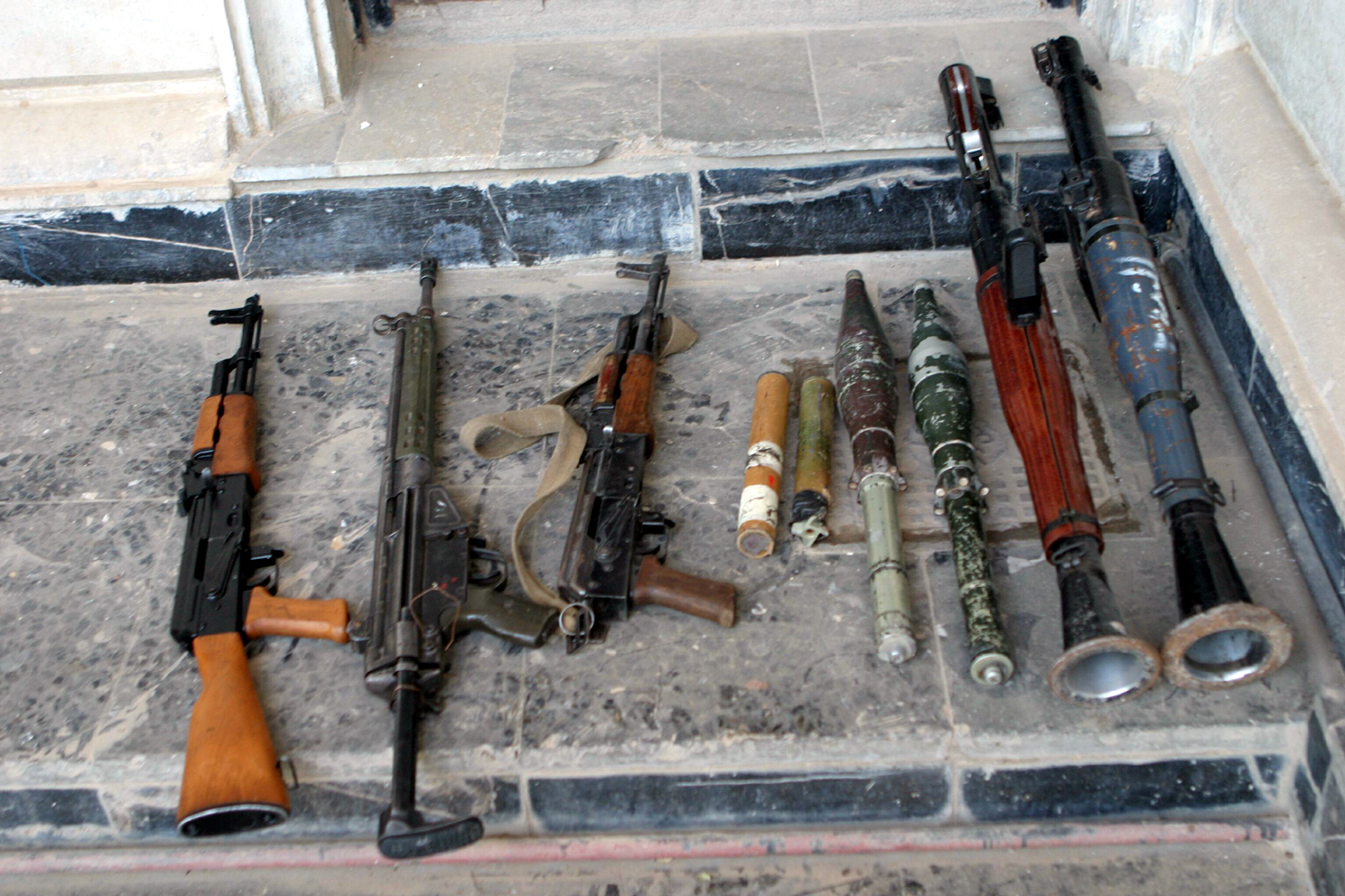 AKM with stock, G3A4, AKM, detonators and RPG-7s(with munition) found by Marines from Bravo Company, 1st Battalion, 3rd Marine Regiment in a house in Fallujah PhotoID: 200412145414 Submitted by: 1st Marine Division Operation/Exercise/Event: Operation Iraqi Freedom Caption: "Small arms and rocket-propelled grenades found by Marines from Bravo Company, 1st Battalion, 3rd Marine Regiment in a house in Fallujah. From left to right: AKM, Heckler & Koch G3, another AKM, stock removed, two Rocket Propelled Grenades, and two RPG-7s."